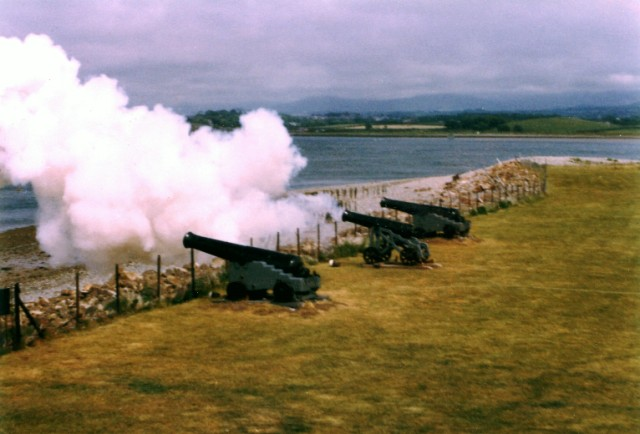 Firing the cannon at Fort Belan